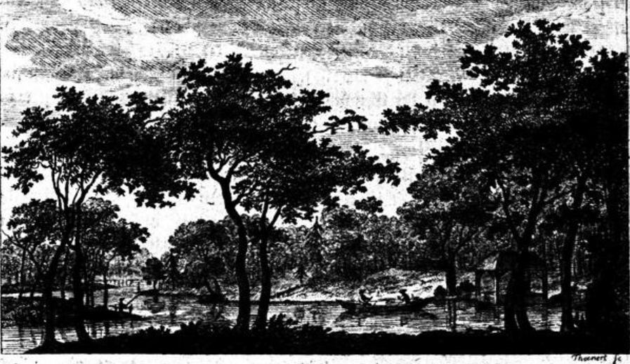 Page 153 in volume one of C.C.L. Hirschfeld's Theorie der Gartenkunst Leipzig, 1779-1785.